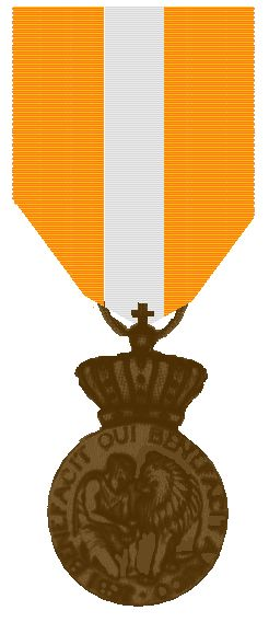 Medal of Gratitude 1940 - 1945 The Netherlands